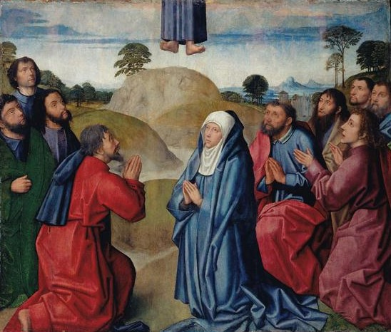 Ascension of Jesus (1530-1537) by an anonymous disciple of Gerard David; It is part of the Polyptych of Esporão Chapel (Cathedral of Évora) and now is on display at Museu de Évora, Portugal.